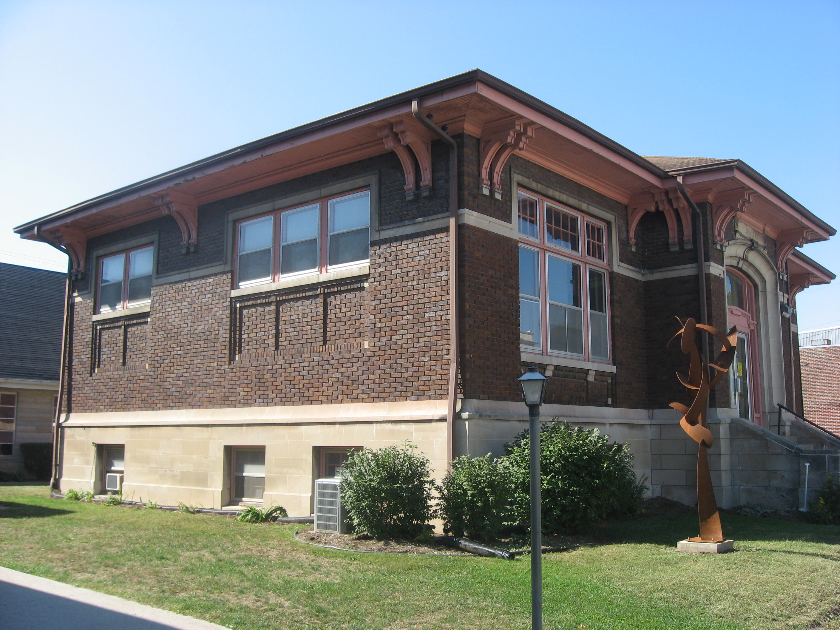 Front and eastern side of the Spencer Public Library, located at 110 E. Market Street in Spencer, Indiana, United States. Built in 1912 and since converted into a local history museum, it is listed on the National Register of Historic Places.